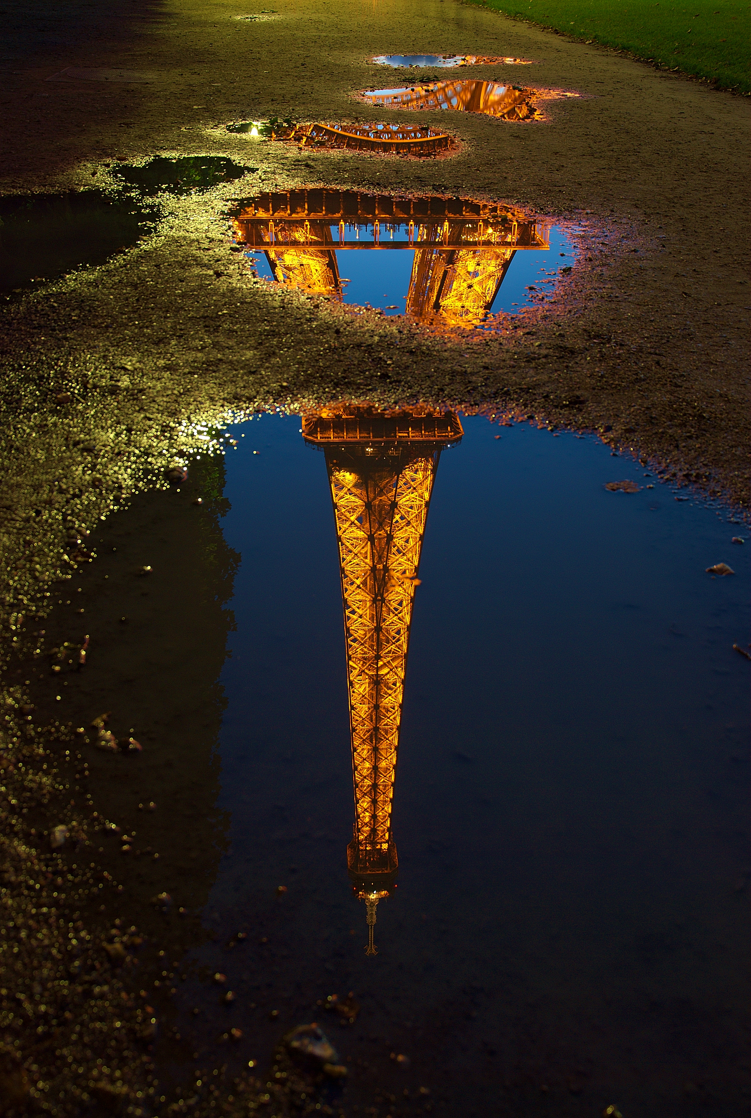 Reflection of the Eiffel tower in a water puddle. Paris, France.